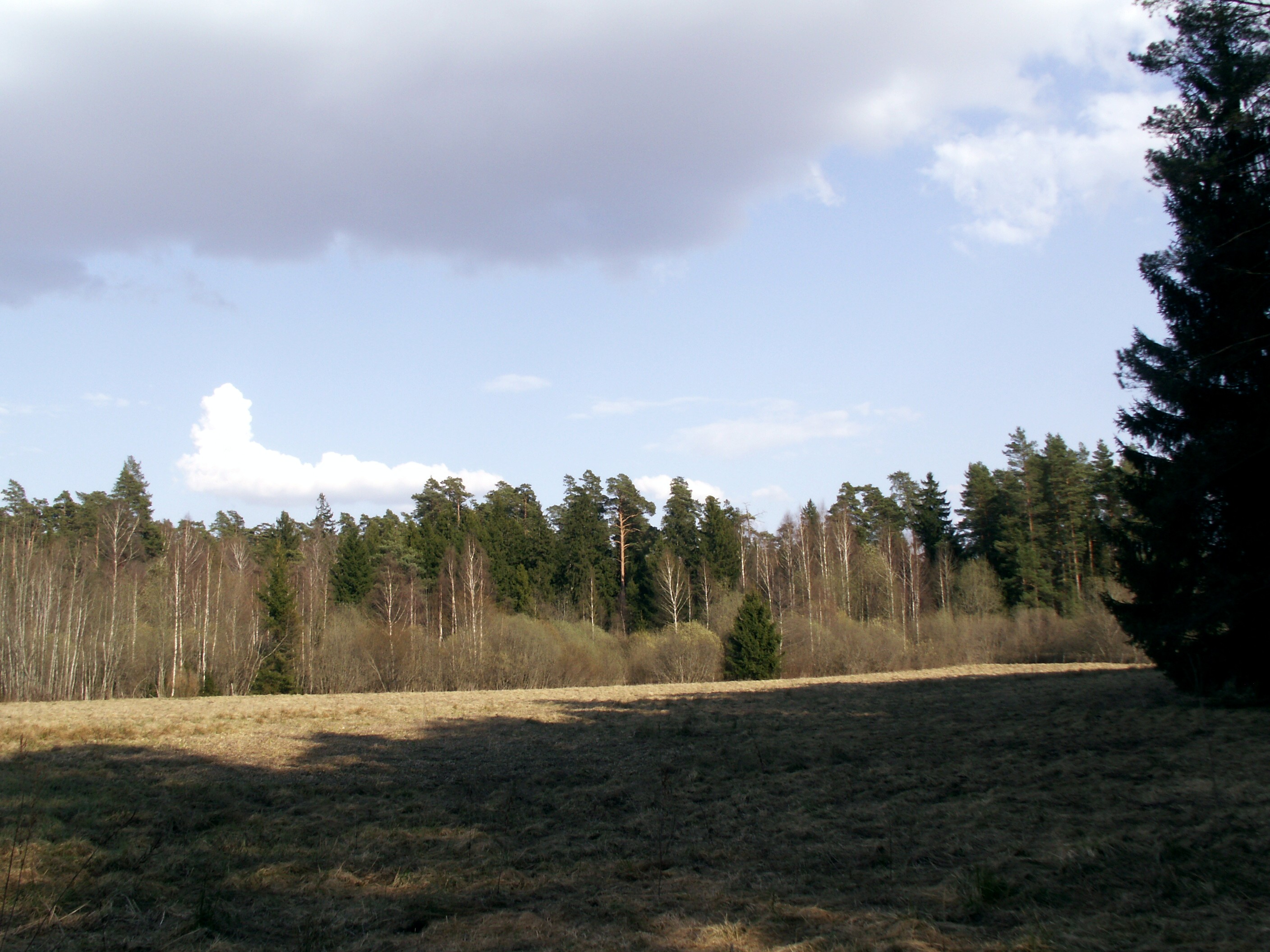 Tytuvėnai forest, Kelmė district, Lithuania